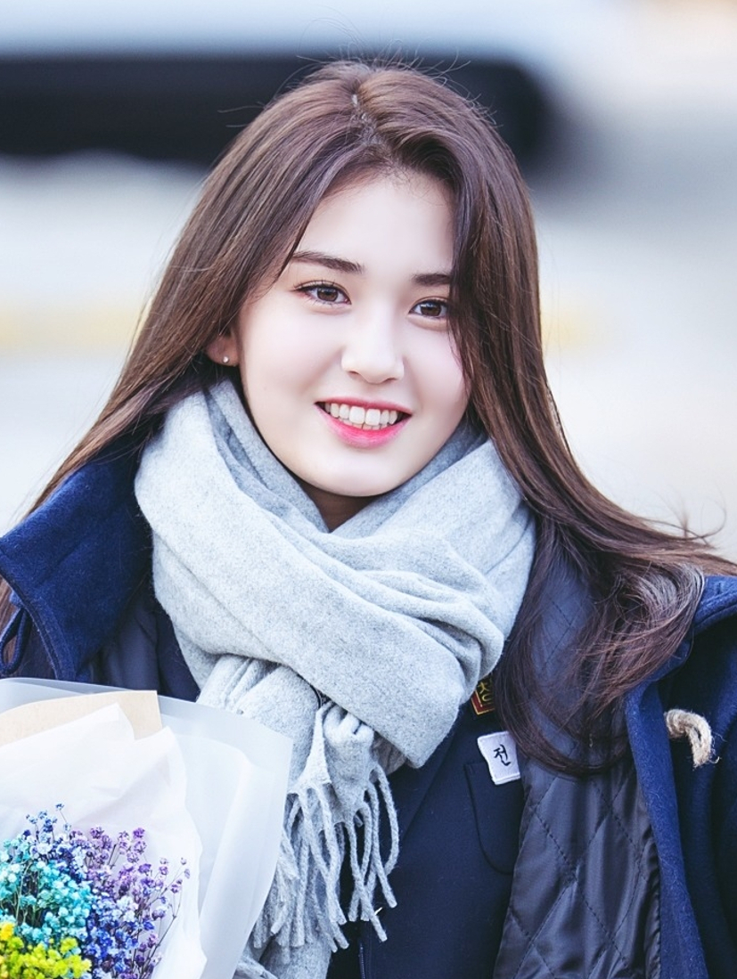 Somi Cheongdam Middle School graduation ceremony in February 3, 2017.